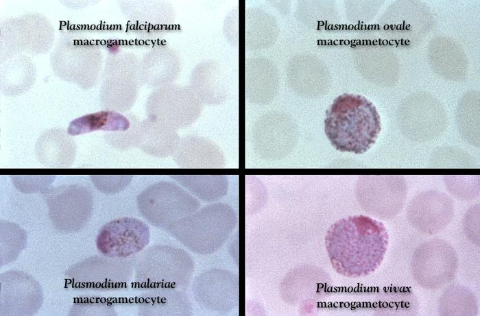 This Giemsa stained slide reveals a P. falciparum, P. ovale, P. malariae, P. vivax, gametocyte. The male (microgametocytes) and female (macrogametocytes), are ingested by an Anopheles mosquito during its blood meal. Known as the sporogonic cycle, while in the mosquito's stomach, the microgametes penetrate the macrogametes generating zygotes.